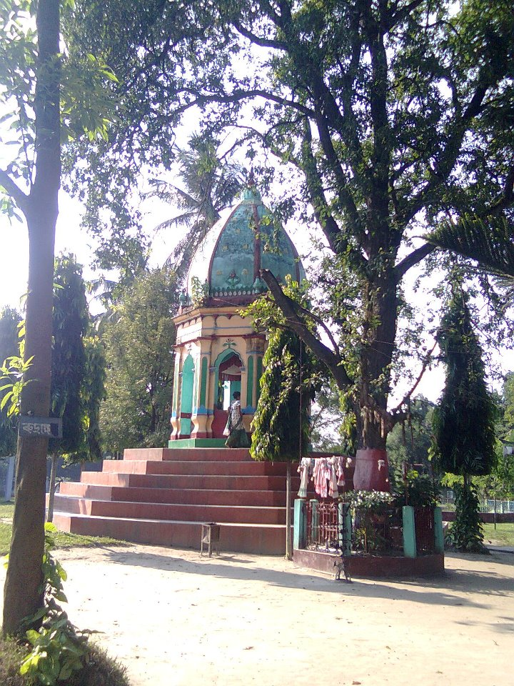 Gorokhiya Gosainr Than, Barpeta